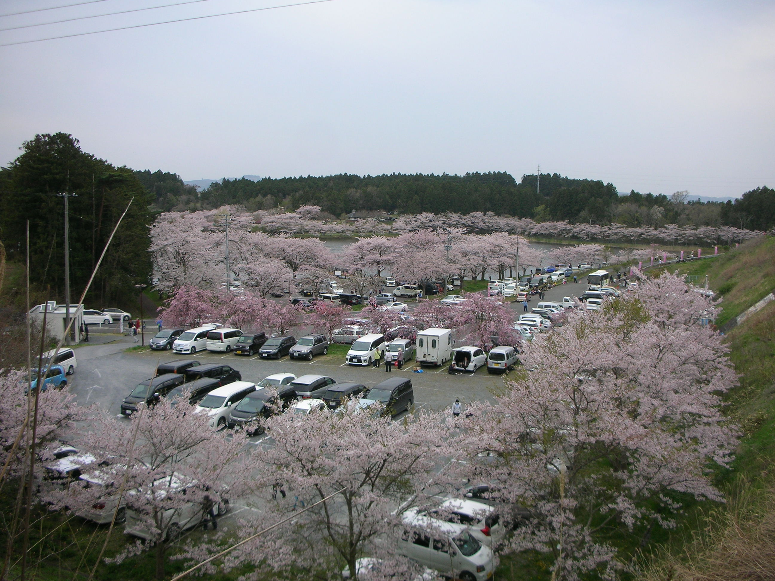 Byodonuma sakura matsuri ("Byodo Pond Sakura Festival") in Tome City, Miyagi Prefecture, Japan